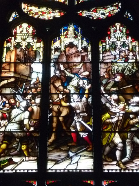 Stained-glass window depicting the assassination of the Regent Moray in Linlithgow High Street in 1570, believed to be the earliest recorded assassination involving a firearm. The window was financed by the 14th earl of Moray as part of a Victorian restoration in the 1880s